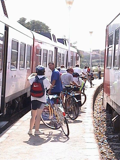 Bycicle between trains